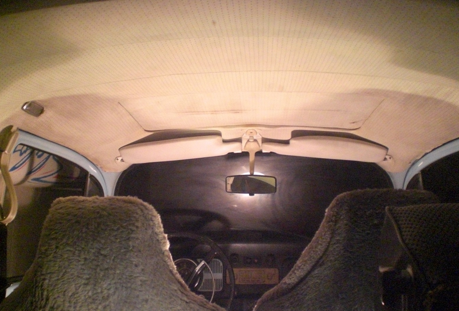 worn head liner (69 bug)